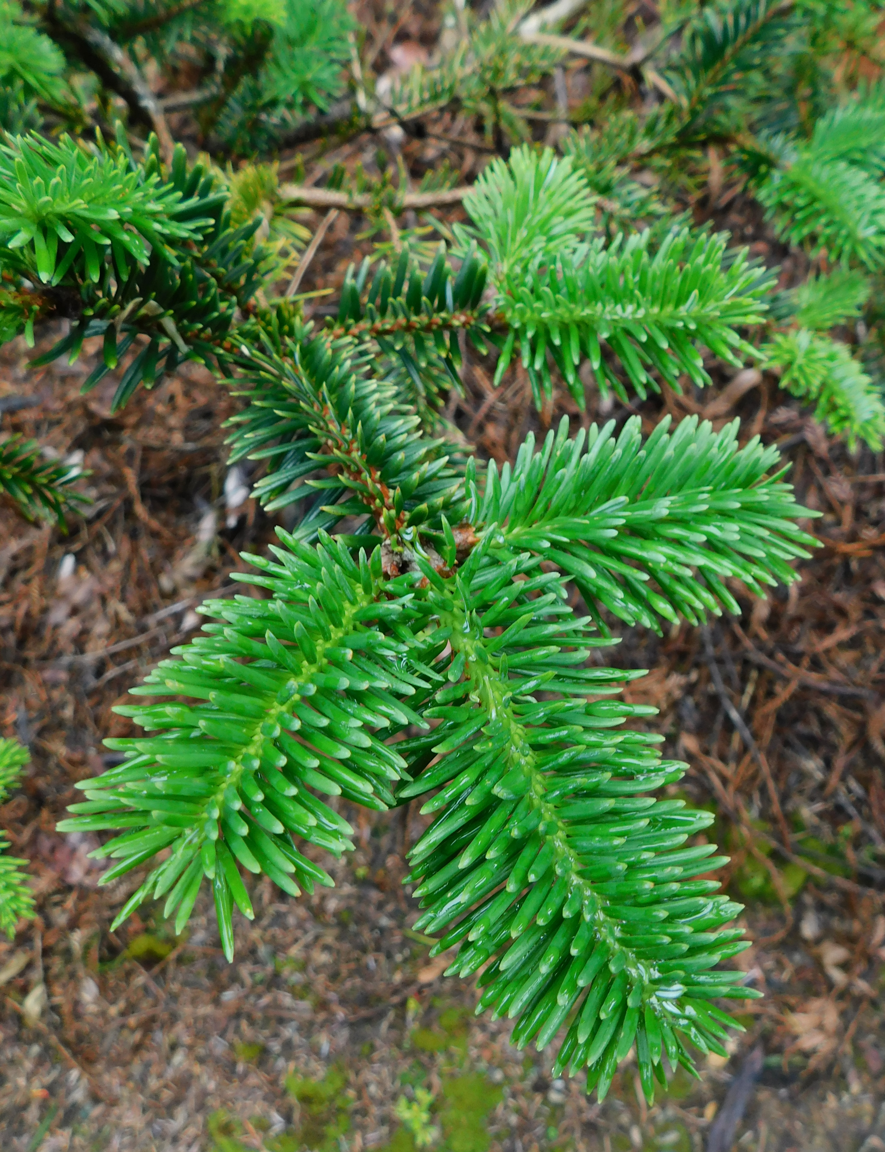 Abies forrestii var. georgei at the University of California Botanical Garden, Berkeley, California, USA. Identified by the garden signage.